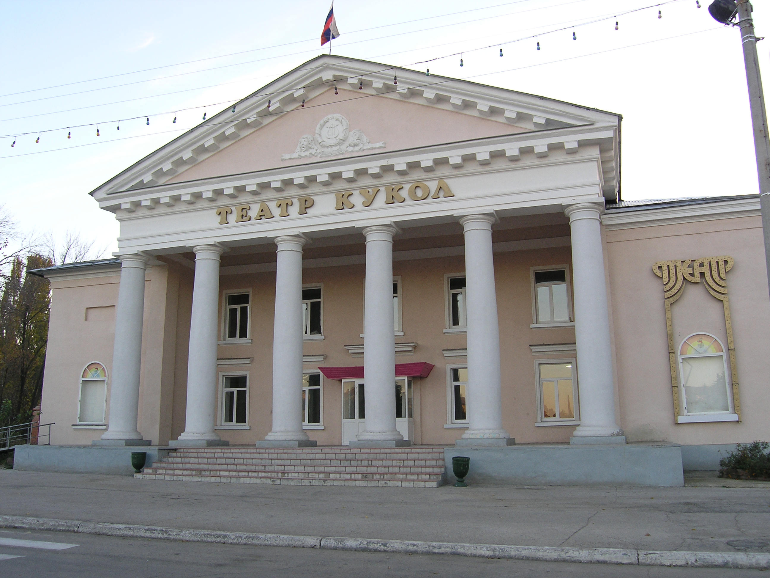 Piligrim theatre, Toglistti, Russia